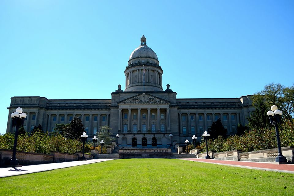 Kentucky State Capitol Front Exterior